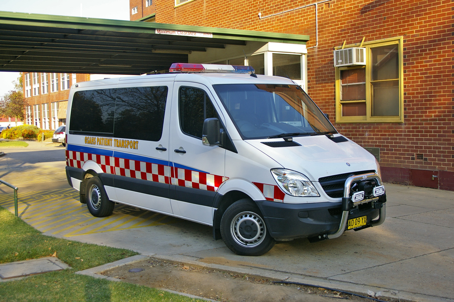 Greater Southern Area Health Service (GSAHS) Patient Transport vechile